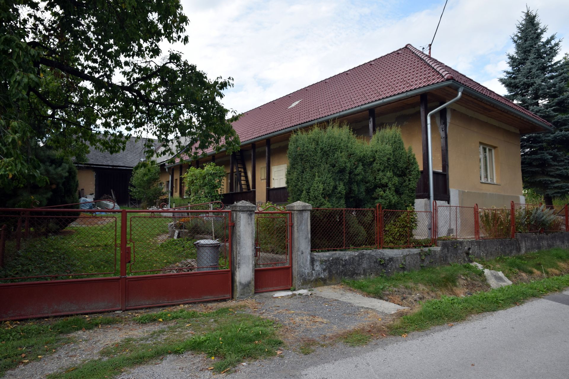 Badín, typical house in village center